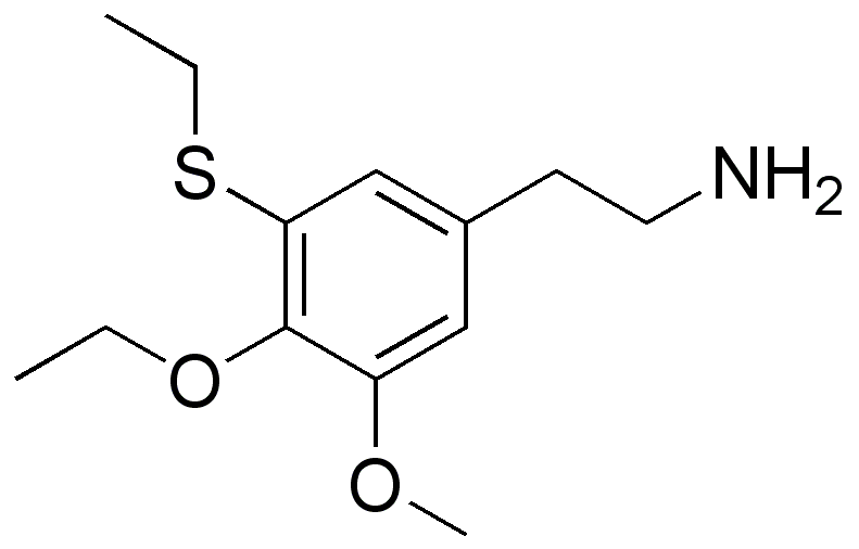 Chemical structure of 3-TASB, drawn in ChemDraw by User:Mark PEA.